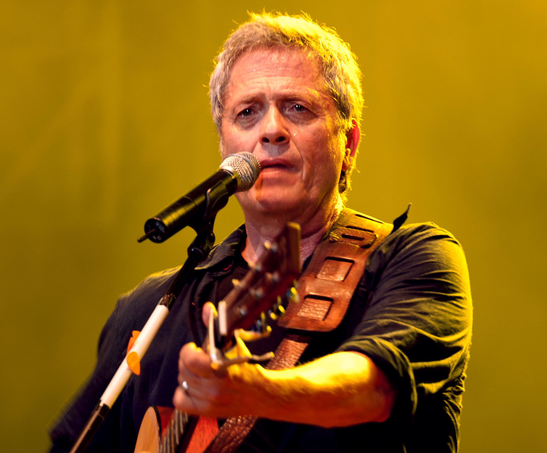 Shlomo Artzi performing at Caesarea